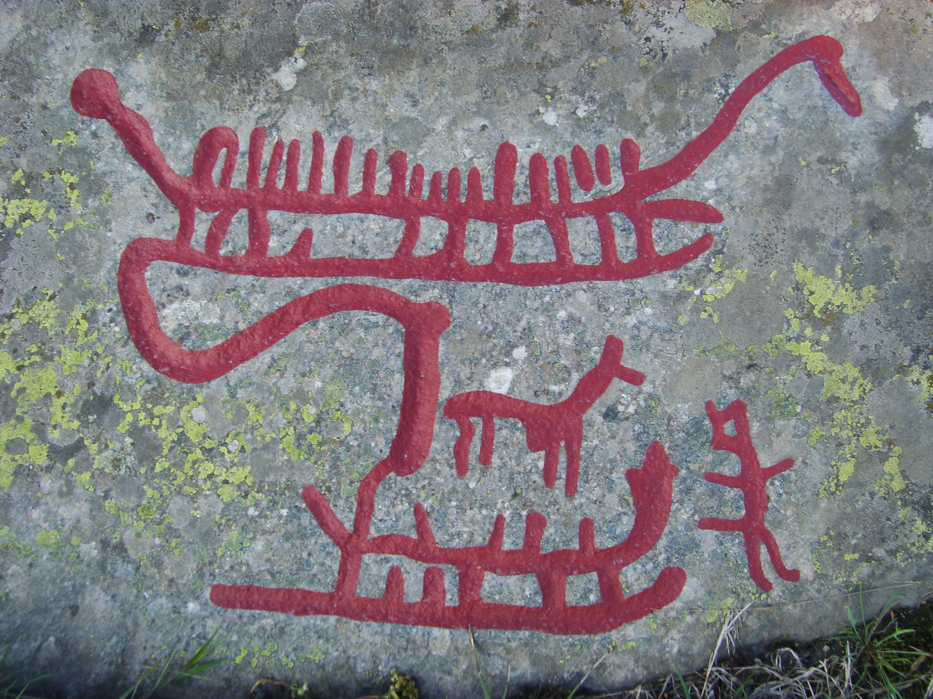 The rock carving sites of Norrköping are concentrated to the area around the river Motala ström (2 x 5 km), which was suitable for settlement during the Bronze Age (c 1800-500 BC), The pictures (more than 7300) are dominated by cup marks (c 4000) and ships, but the visitor also will discover humans, animals, weapons and sun symbols.